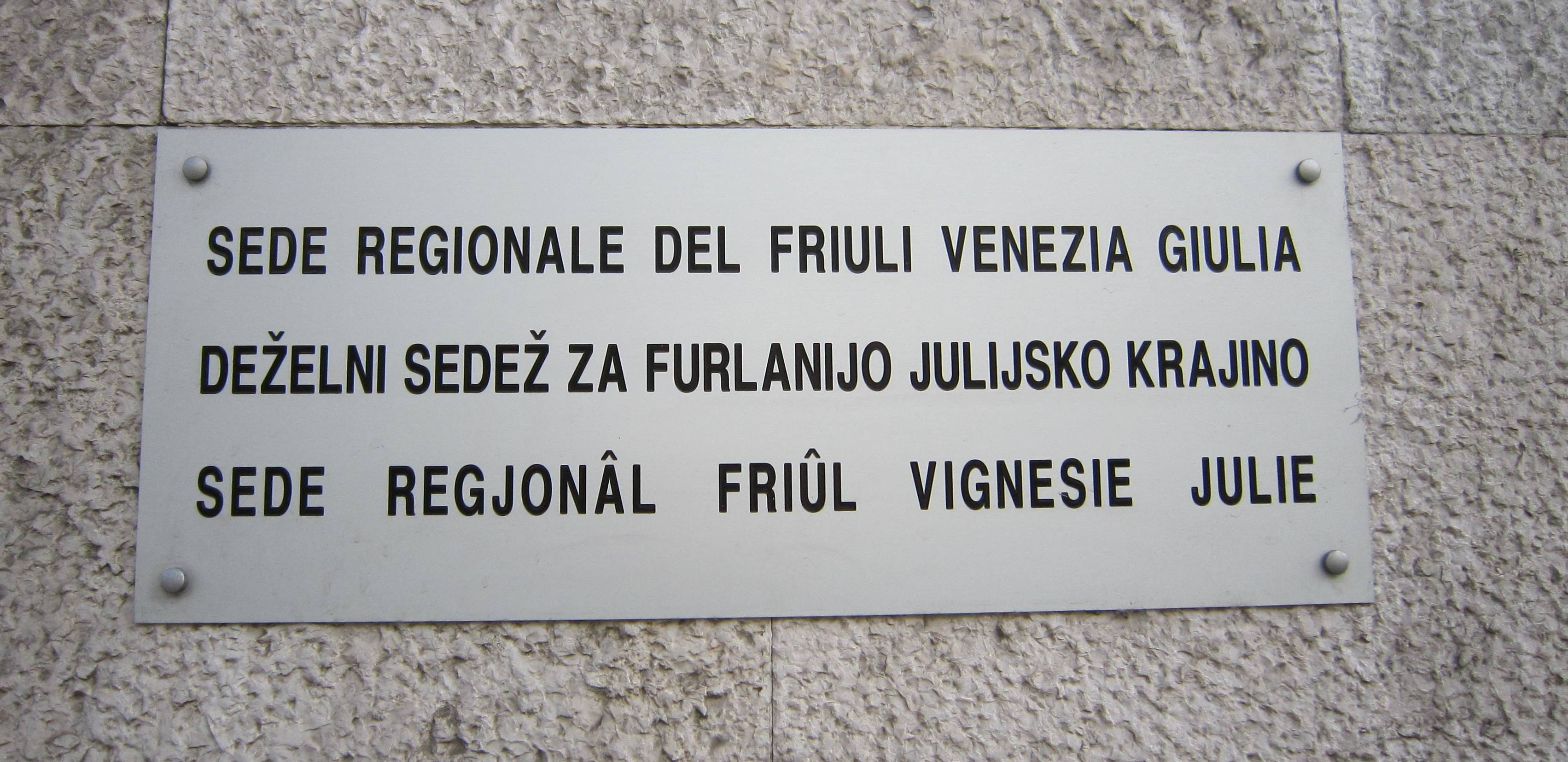 insegna rai fvg presso sede rai trieste